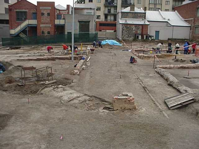 Archaeologists at work amongst building footings at Little Lon, in 2002. Taken from the rear of the former Black Eagle Hotel, looking north up what was once Little Leichhardt Street, towards the former Oddfellows Hotel. The large pipe in the left foreground dates from the early 20th Century.